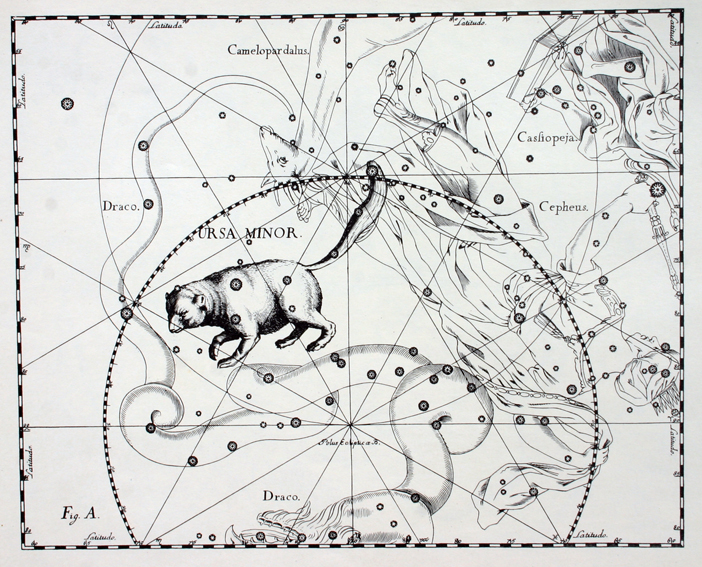 The Ursa Minor constellation from Uranographia by Johannes Hevelius. The view is mirrored following the tradition of celestial globes, showing the celestial sphere in a view from "outside"